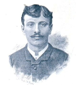 Portrait of the Italian tenor Giovanni Paroli (1856 - 1920), published in L'Illustrazione Italiana 1887